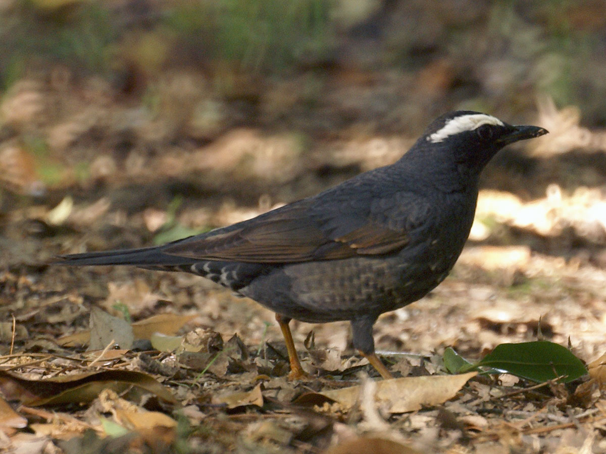 Siberian Thrush Zoothera sibirica